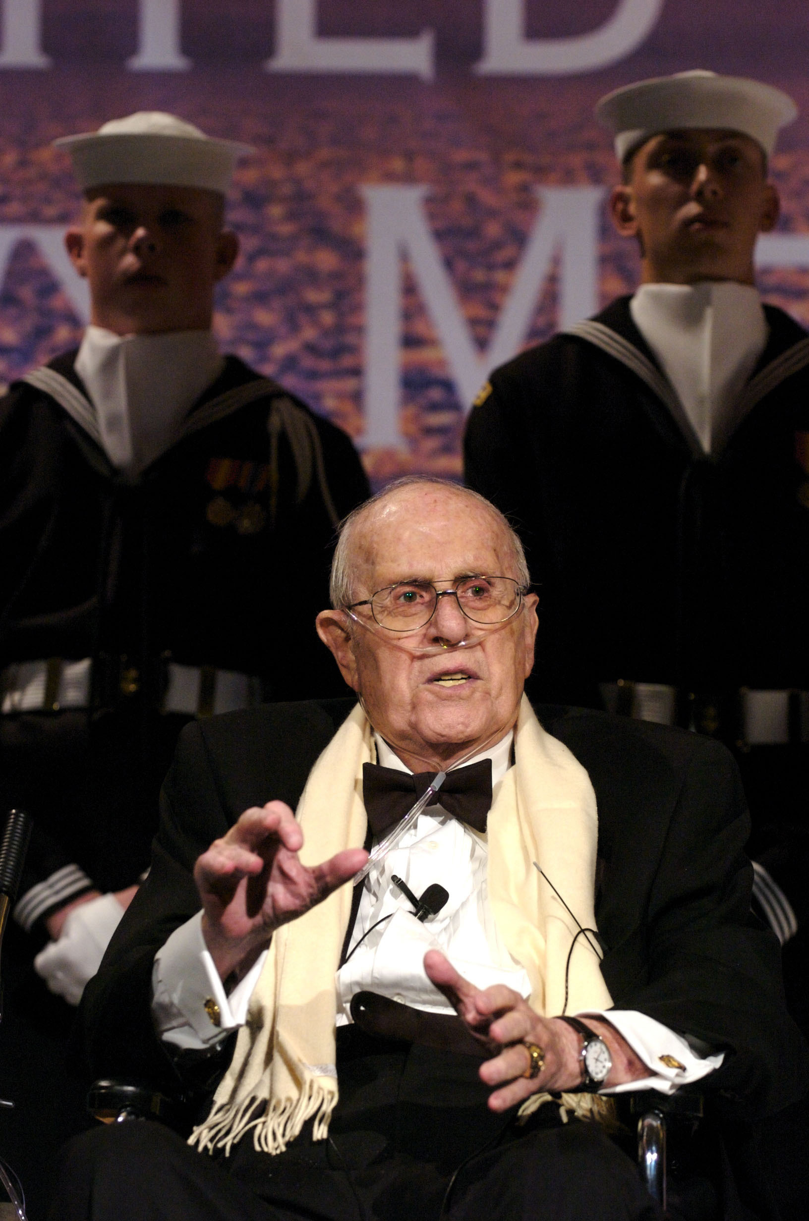 061025-N-0696M-118 Washington, D.C. - Legendary basketball coach Red Auerbach speaks after being honored with the 2006 Lone Sailor Award by the United States Navy Memorial at the Grand Hyatt Hotel. The image of the Lone Sailor, that of a seagoing veteran standing ready for service in a faraway port, personifies the sacrifices, courage and commitment of Navy people past, present and future. Mr. Auerbach died three days later.